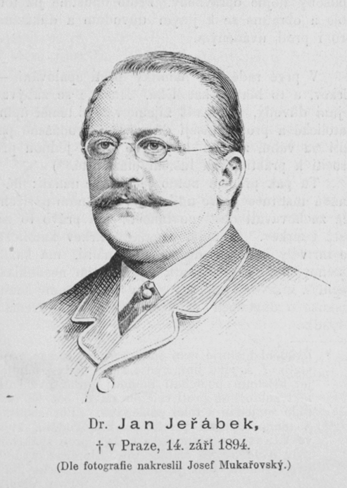 Portrait of Jan Jeřábek (1831-1894), Czech lawyer, journalist and politician.